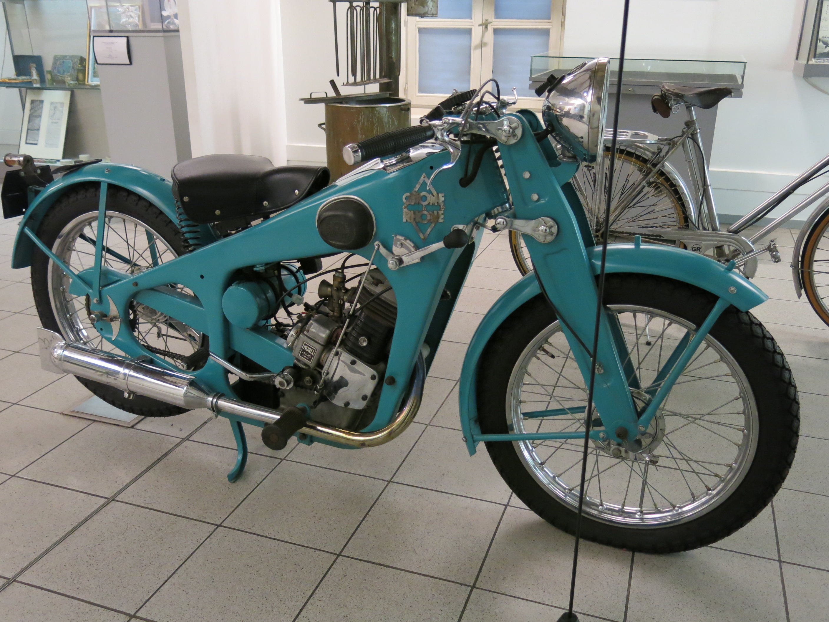 Gnome et Rhône - Moto junior 3 points in the Municipal Museum of Art and History in Colombes (Hauts-de-Seine, France).